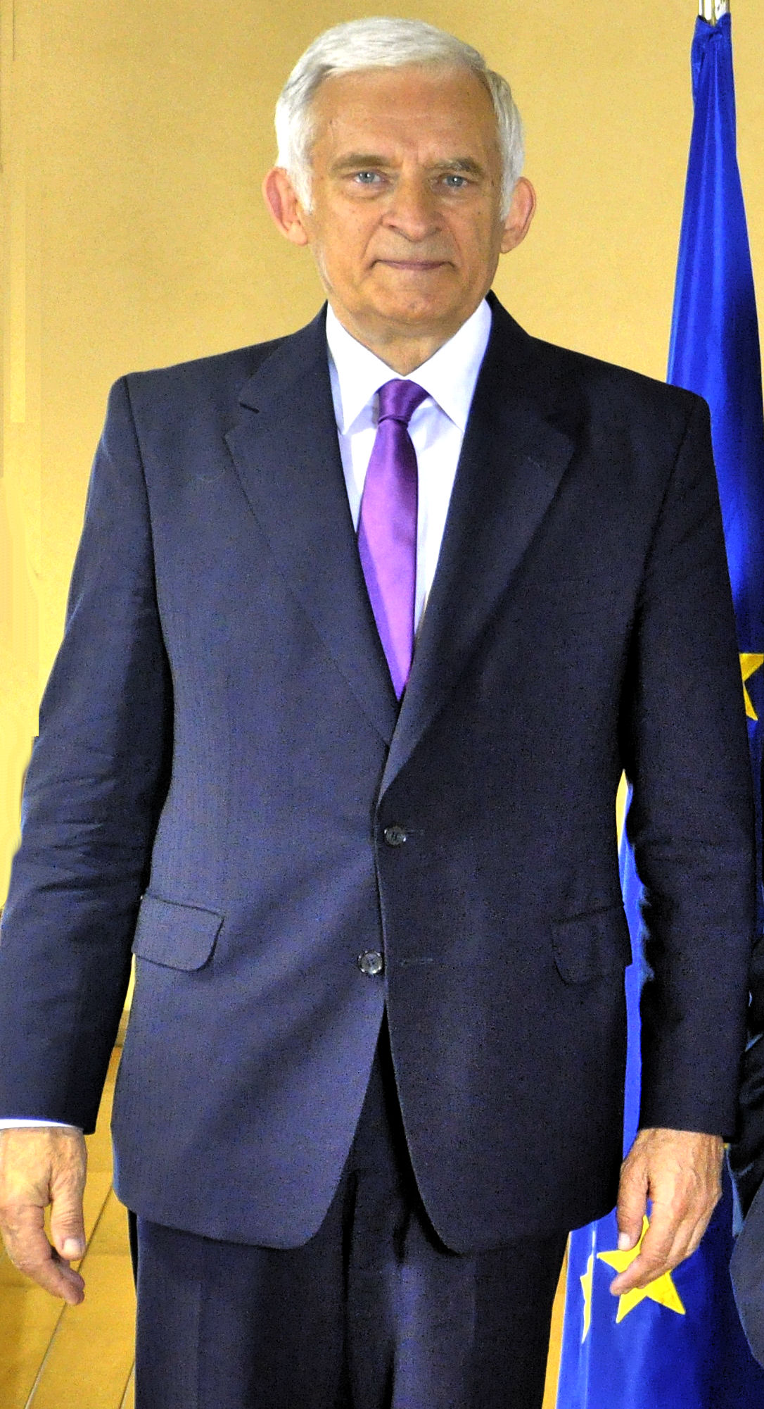 President of the European Parliament and former Polish Prime Minister Jerzy Buzek, Brussels, May 2011